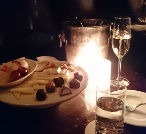 Bubble of sparkling wine